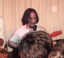 Saxophonist Patrick Grégoire and guitarist Jim Guthrie of rock band Islands playing at Club Lambi (4465 Saint-Laurent Blvd), Montreal, 17 February 2006.